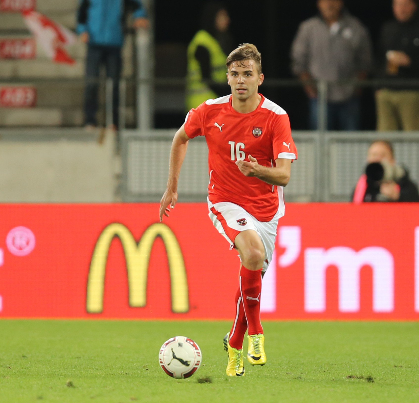 Austria - Iceland football match in Innsbruck, Austria on 2014-05-30. Austria in red, Iceland in blue.